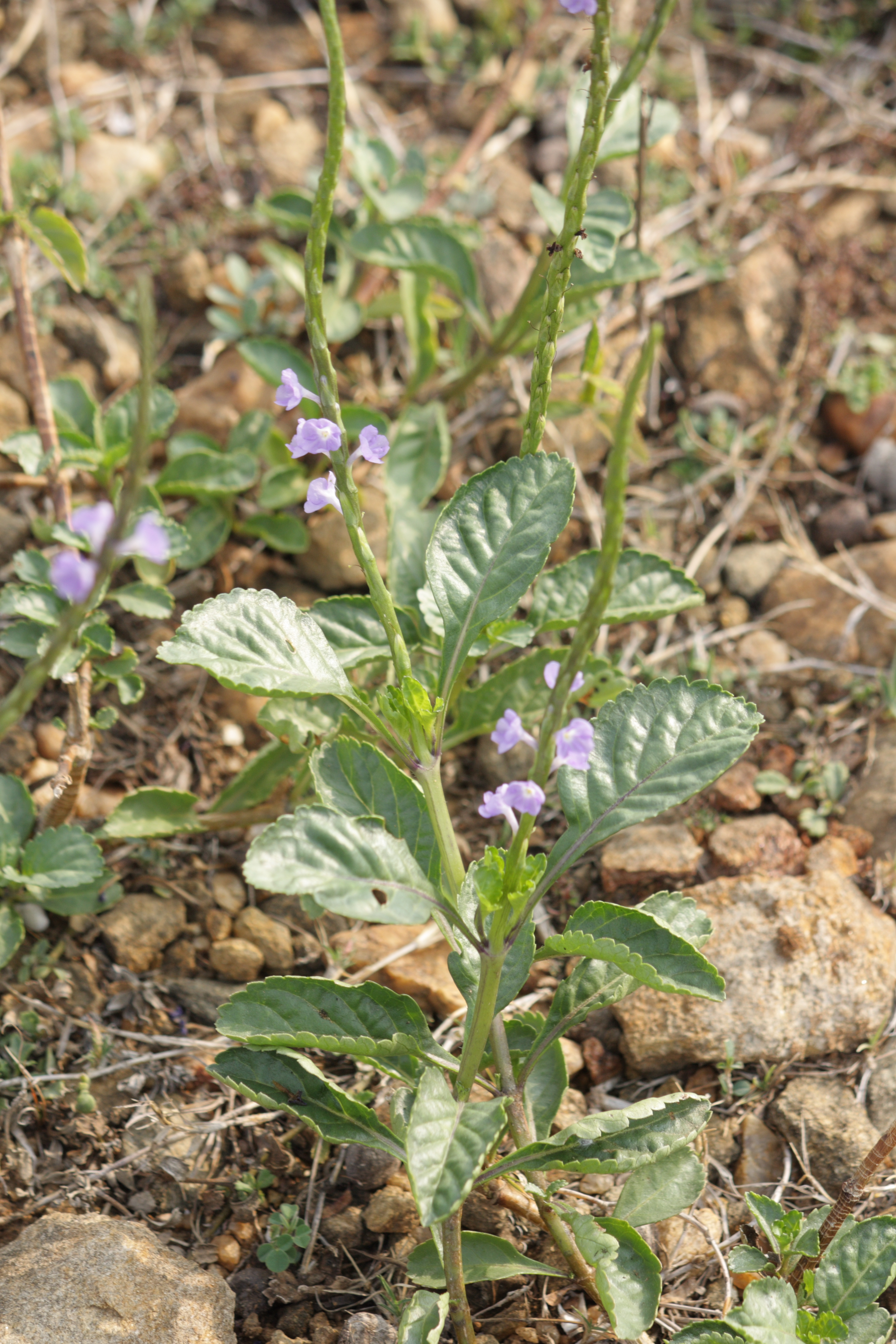 Blue Porterweed plant and flowers